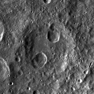 LROC . Kondratyuk "eyes" are satellites Q and A .